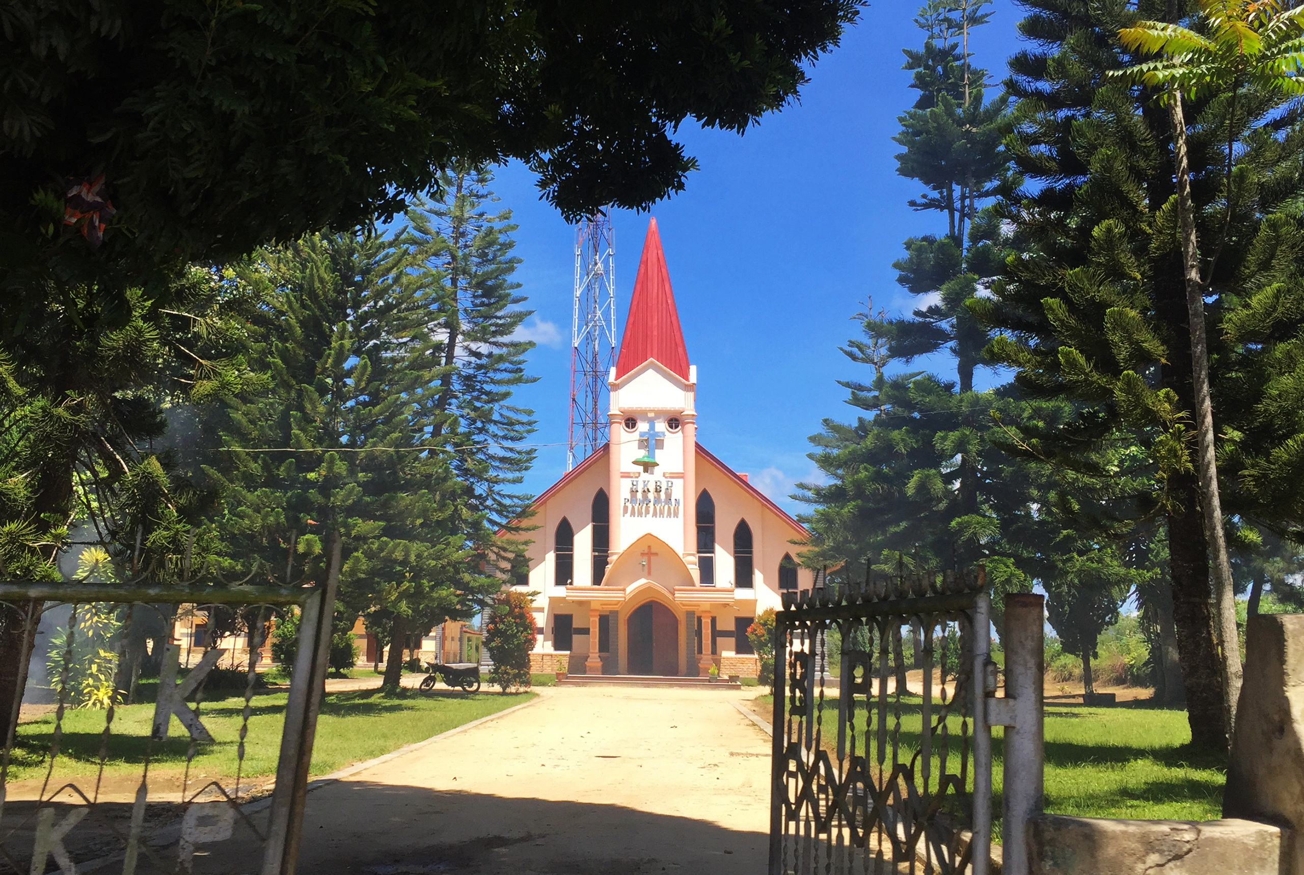 HKBP Pakpahan, Church in Pakpahan, Pangaribuan, North Tapanuli